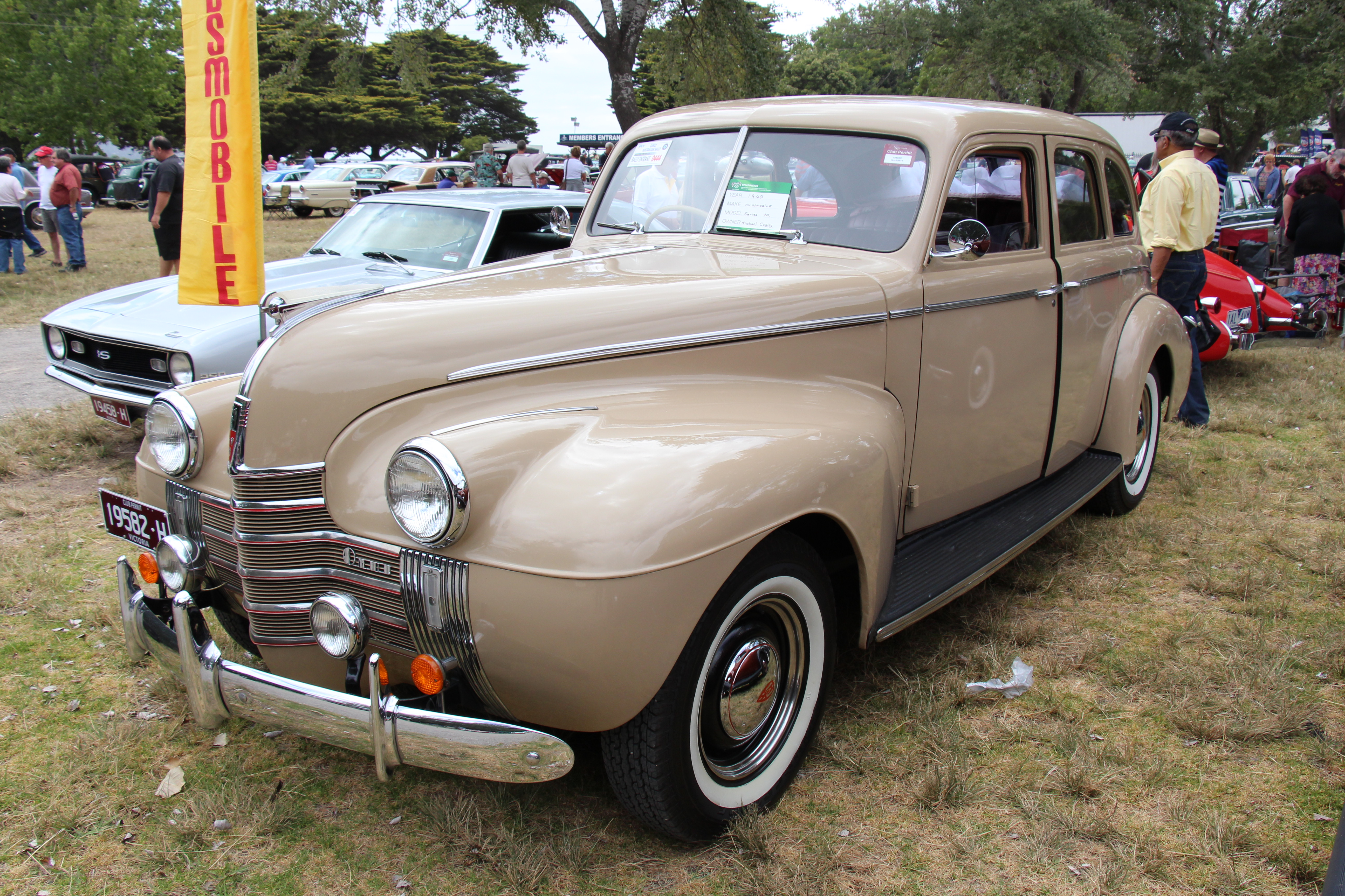 In 1939 the GM-A body Series F was renamed the Series 60 and the larger GM-B body Series L was renamed either the 6 cyl Series 70 or 8 cyl Series 80. Available in Business or Club Coupes and 2 or 4 door Sedans. In 1940 the Series 60 became the Special, the Series 70 became the Dynamic, the 80 was dropped and replaced by the longer GM-C body Series 90 Custom Cruiser. Convertibles and Wagons were added to the range. Oldsmobiles were built in Australia from 1923 to 29 and also from 1934 to 48.Fully assembled cars imported in 1949 and 50.